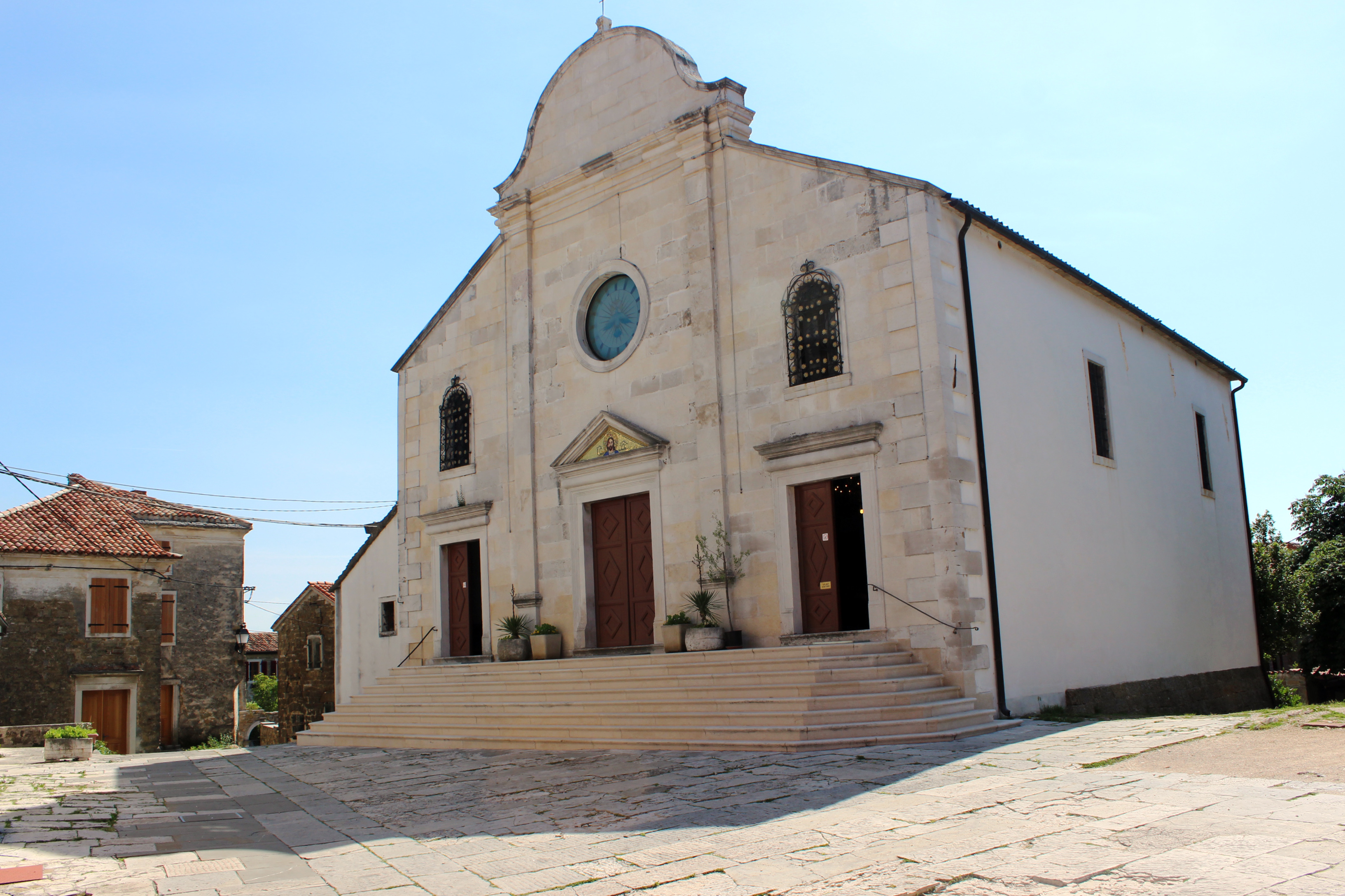 Church of St. George (Crkva Sveti Jurja), in Oprtalj, Croatia